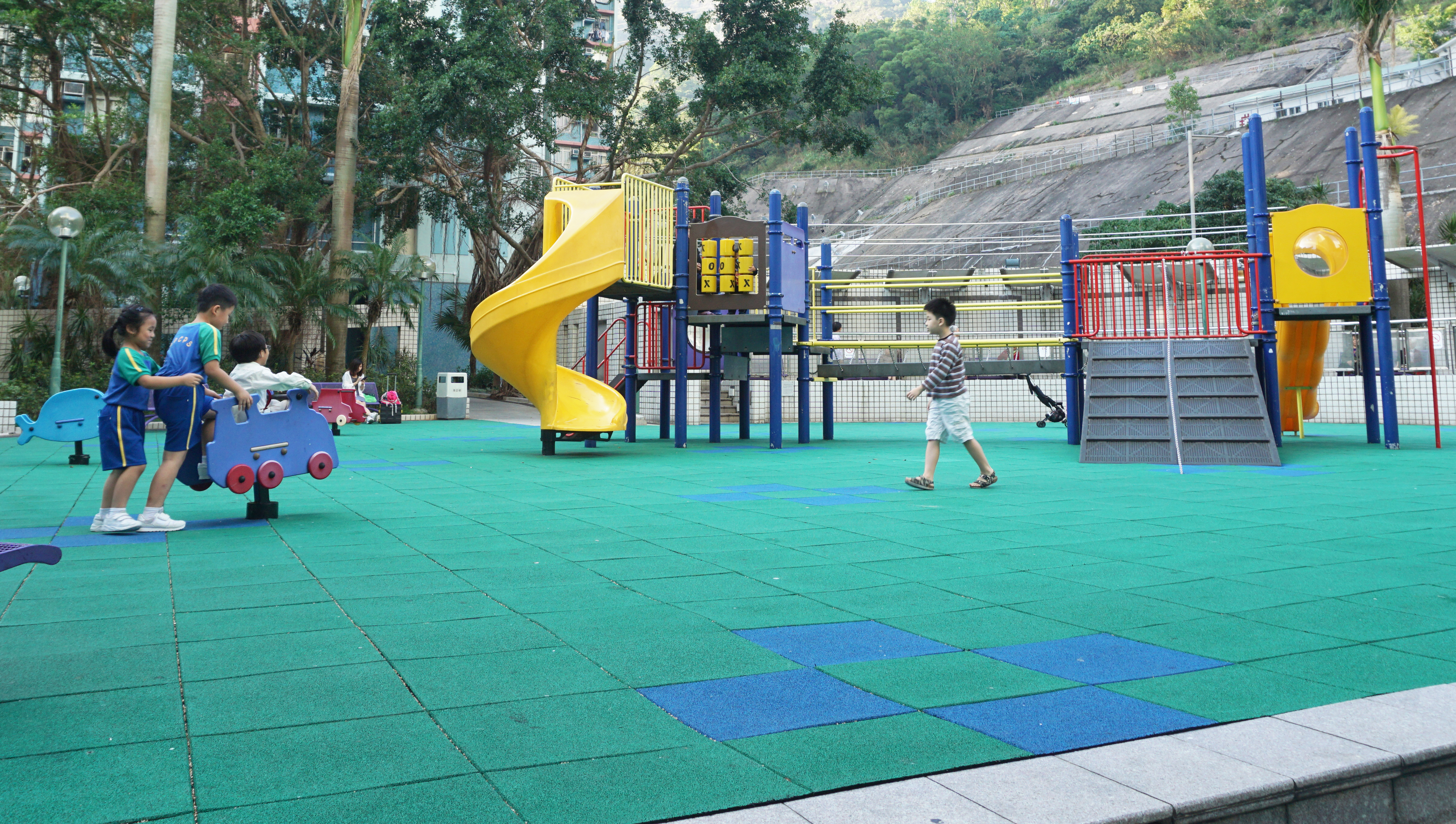 Tsz Ching Estate in Tsz Wan Shan, Hong Kong.